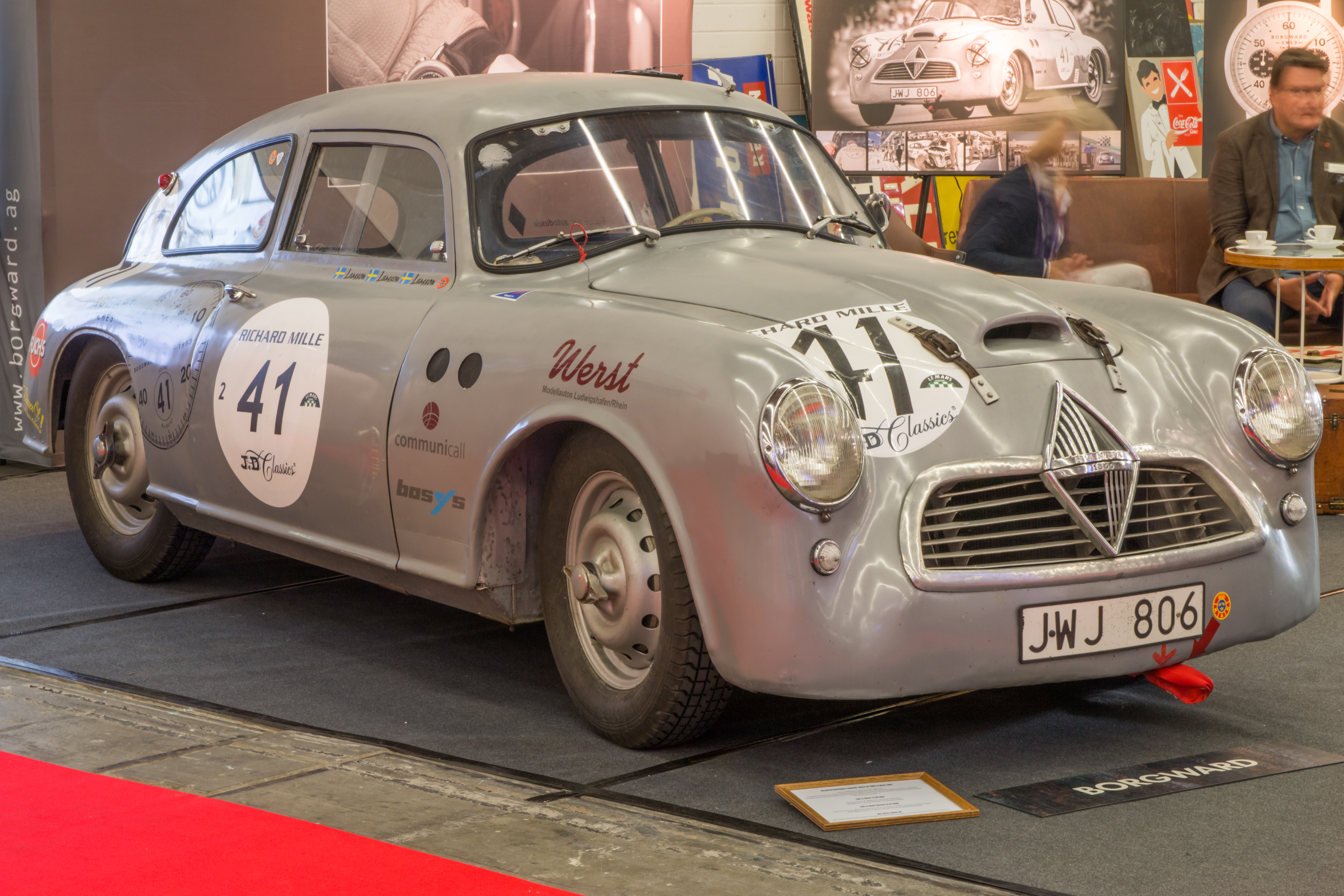 Borgward Hansa RS 1500Engine: Straight-four, 1498 cm³, 66 kWThree of these were built for the 24 hours of Le Mans 1953. This Hansa RS 1500 is the only one known to be still in existence.